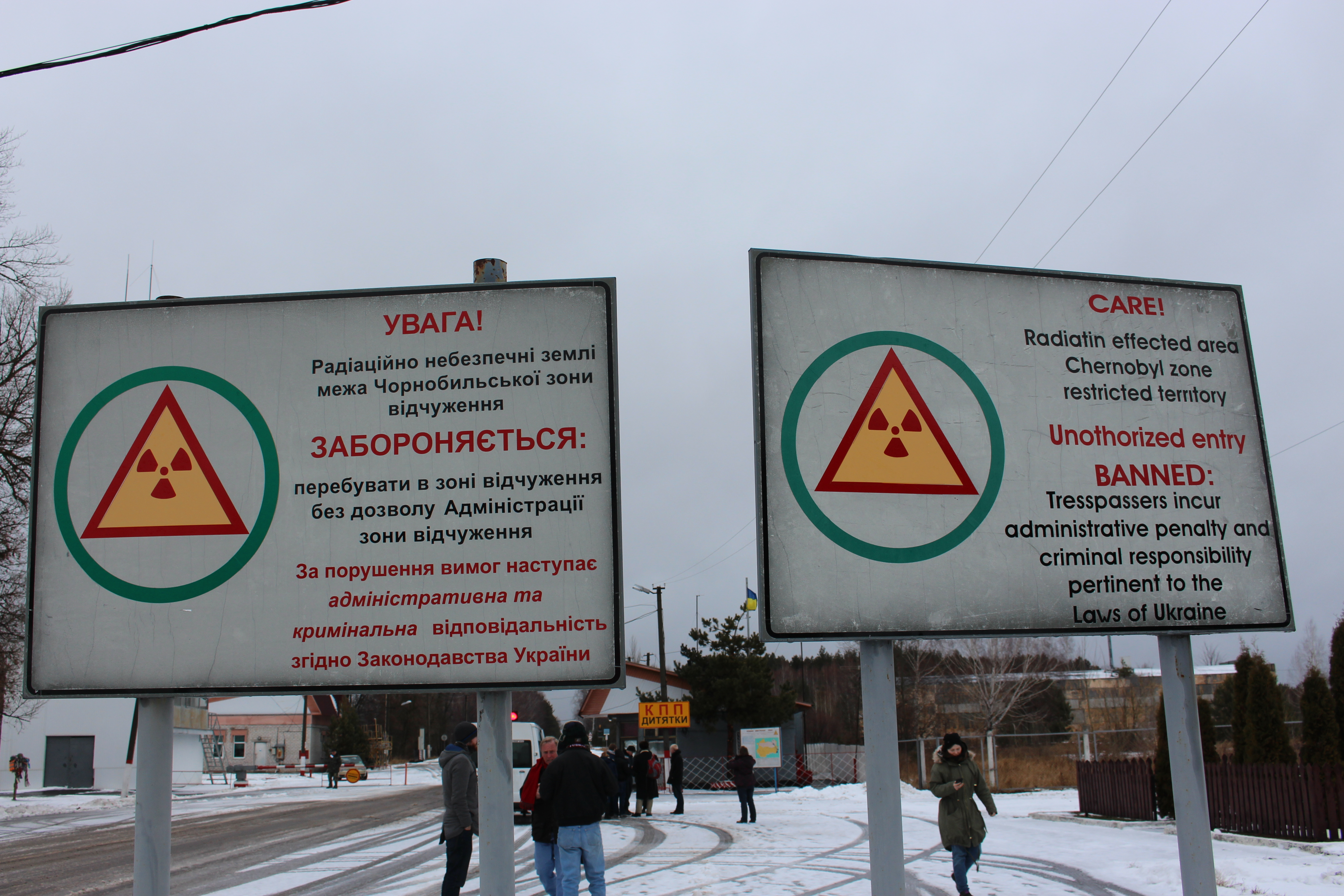 Chernobyl Exclusion Zone.